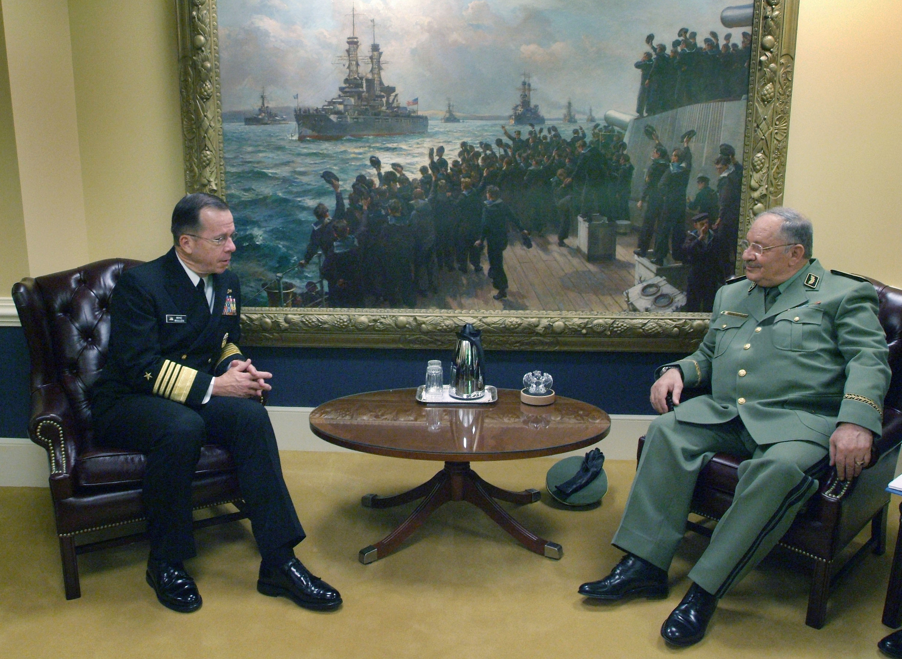 Washington, D.C. (April 20, 2006) - Chief of Naval Operations (CNO) Adm. Mike Mullen meets with Algerian Chief of Staff Gen. Major Ahmed Gaid-Salah, during his official visit to the United States. U.S. Navy photo by Chief Photographer's Mate Johnny Bivera (RELEASED)